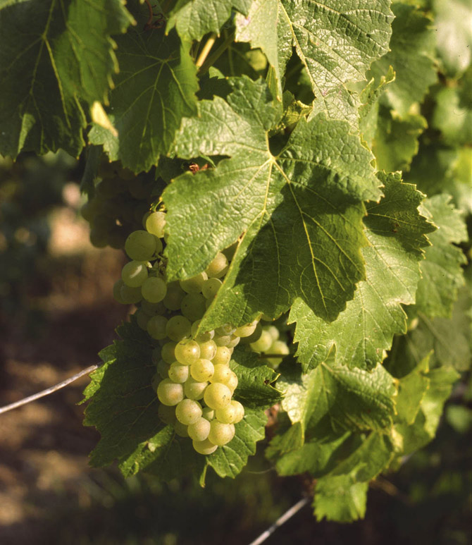 Chardonnay grapes in Avize (Champagne)